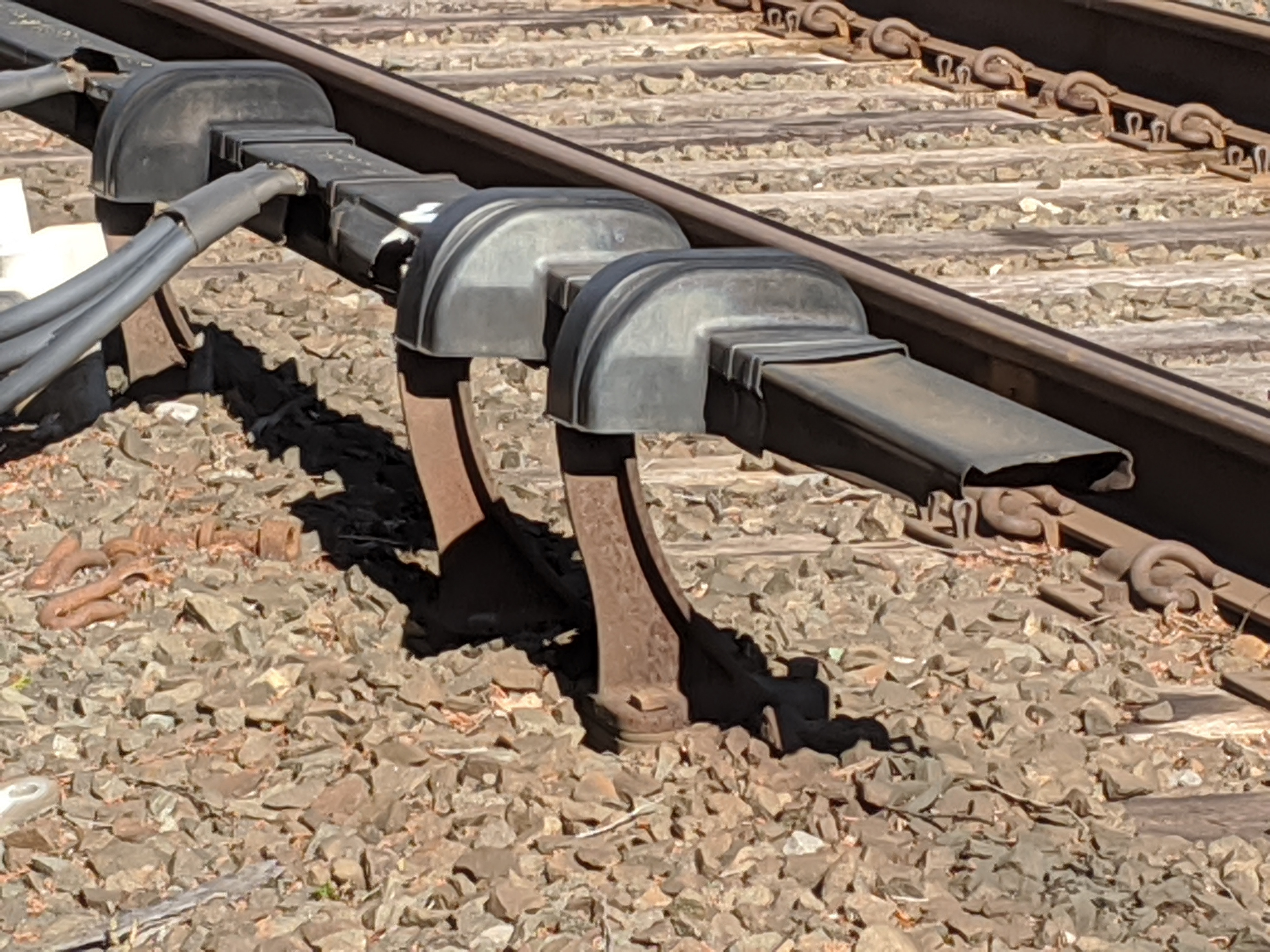 End of a third rail on Metro-North Railroad. Shows the wedge which is used to transition the shoe of the train onto and off of the third rail, but was implicated in the damage done in the Valhalla train crash. Taken at Katonah.